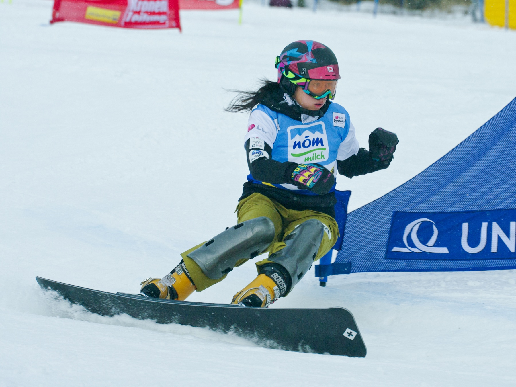 Japanese snowboarder Tomoka Takeuchi in the qualification round of the World Cup Parallel Slalom at the Jauerling in Austria on 13 January 2012.